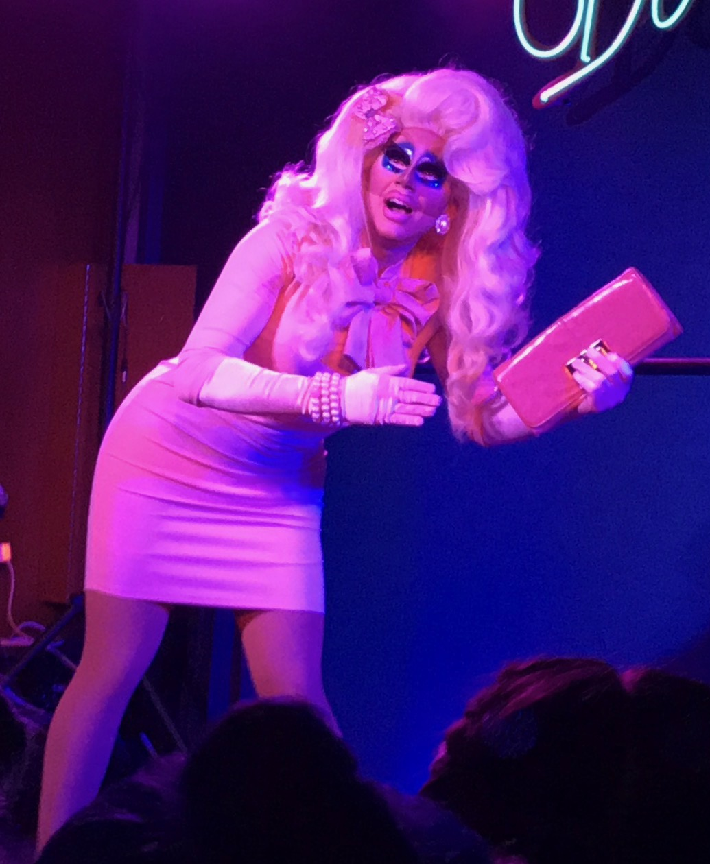 American drag queen and recording artist Trixie Mattel, performing at Dubrovnik Lounge & Lobby in Helsinki, Finland on April 9th, 2017.